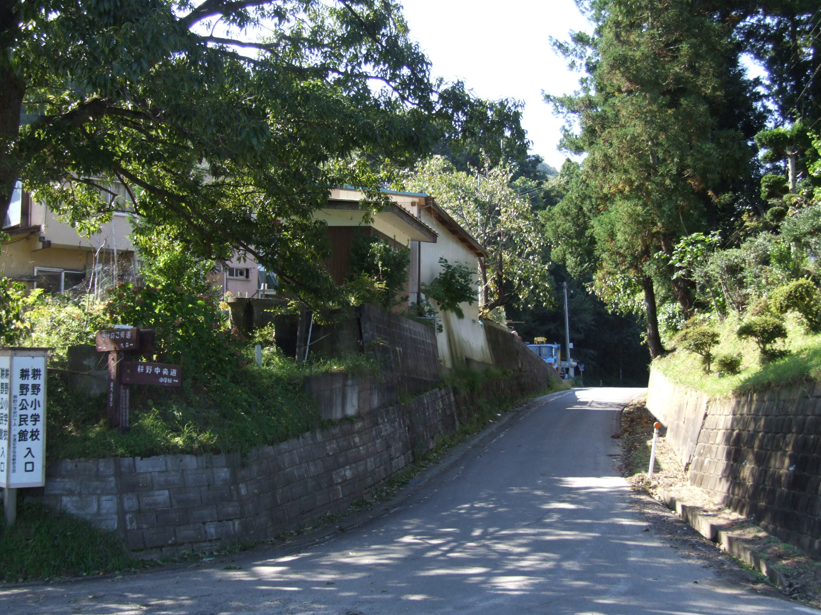 Miyagi Prefectural Road 106, Kawamae-Shiroishi Line. Marumori, Miyagi prefecture, Japan.